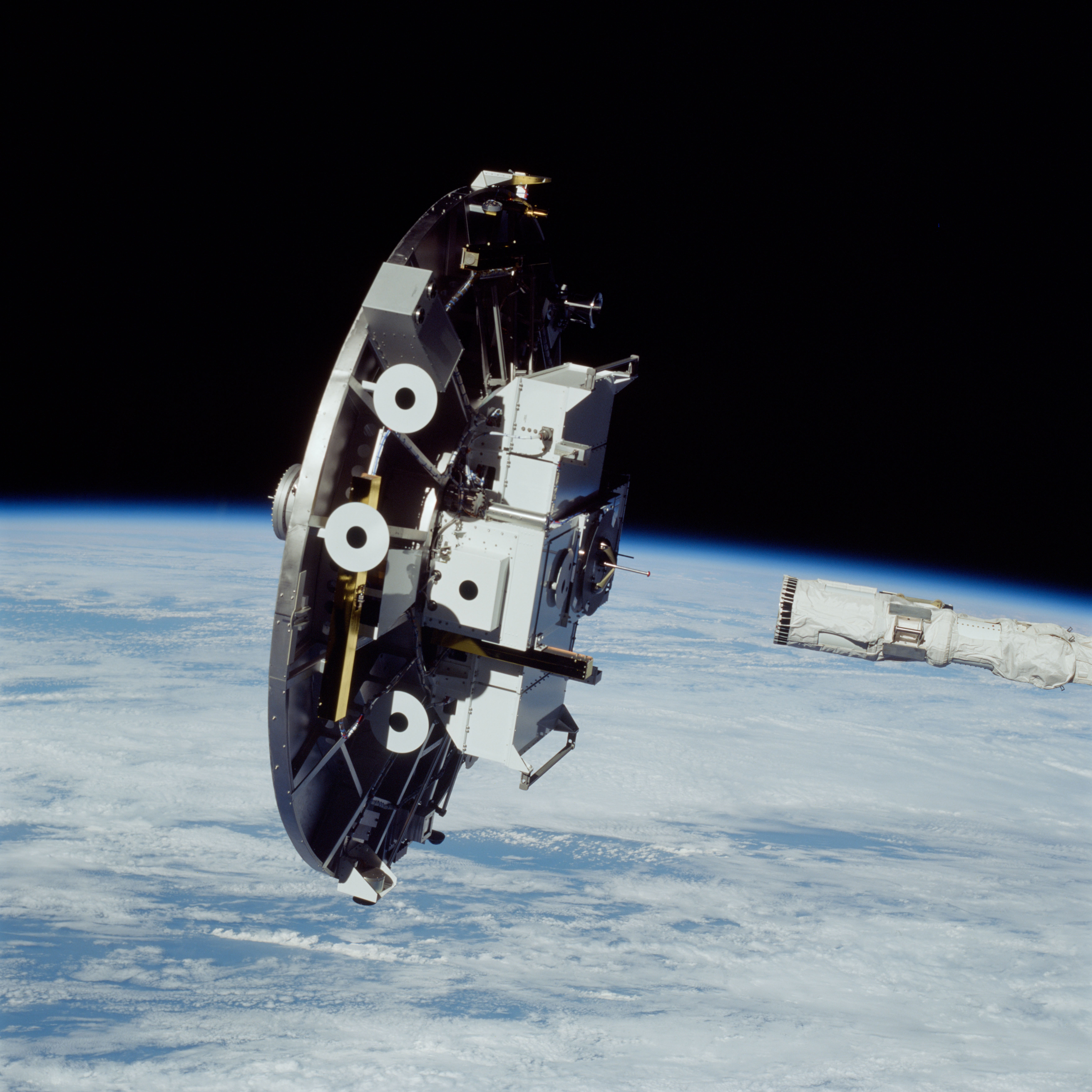 Backdropped against the blackness of space and a cloud covered portion of Earth, the Wake Shield Facility (WSF) is turned loose by the space shuttle Columbia's Remote Manipulator System (RMS) to begin a period of free-flight during STS-80. The image was photographed with a handheld 70mm camera aimed through windows on Columbia's aft flight deck.